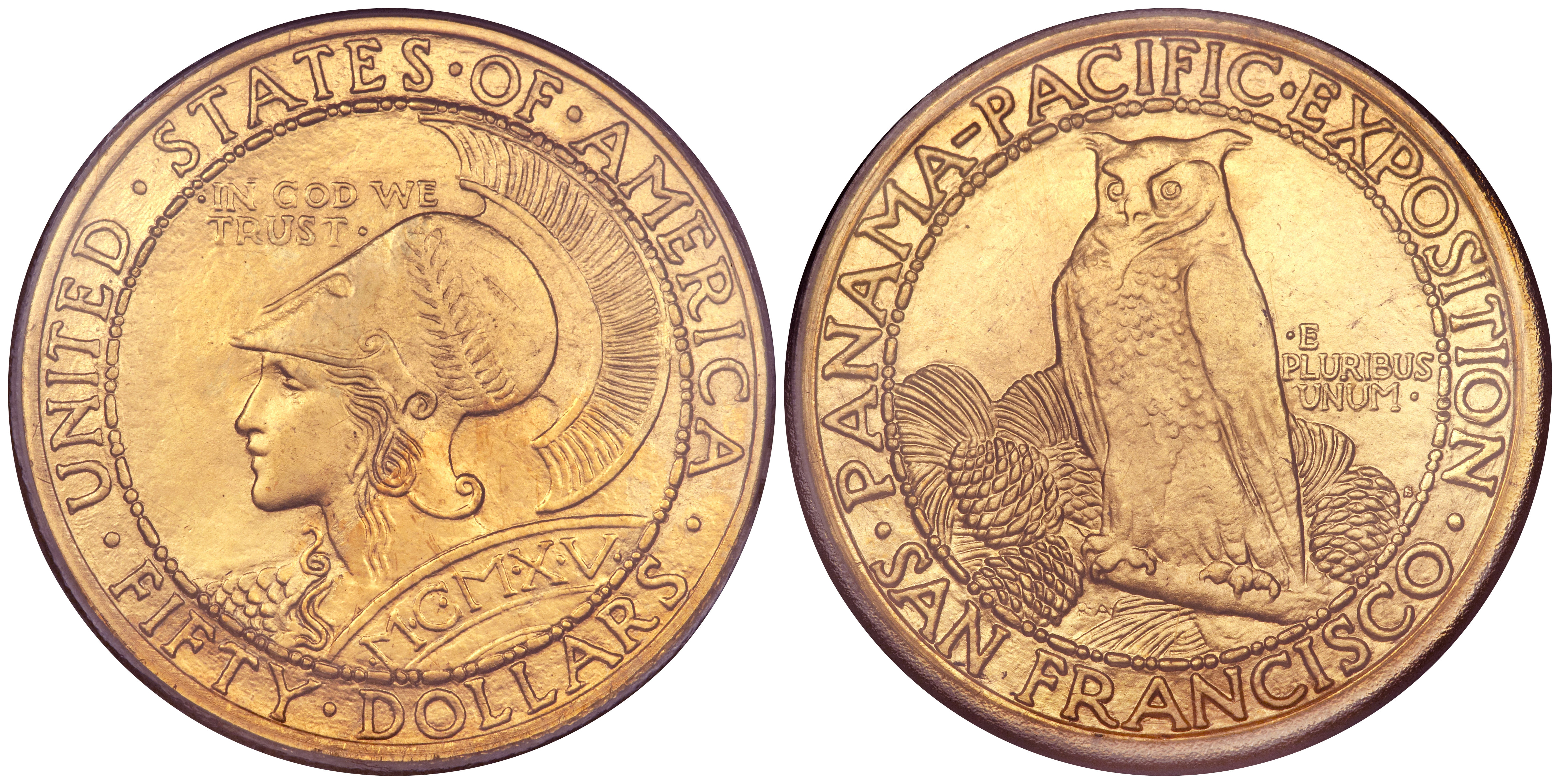 1915-S $50 Panama-Pacific 50 Dollar Round (1209-3551)